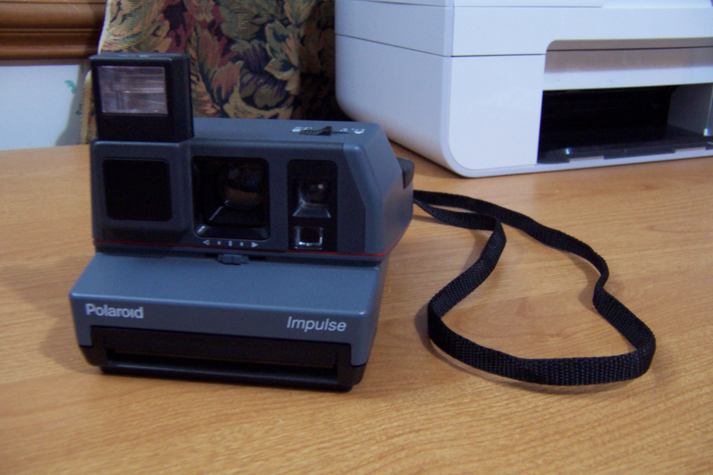 This is a Polaroid Impulse instant camera, circa 1988-mid 1990s, from my own collection. This was a popular model of camera that features a pop-up flash. This is the view of the camera turned on (with the pop-up flash visible and the lens cover retracted). Notice: Ignore the date and time in the metadata: I did not set the clock on the camera before uploading the picture.